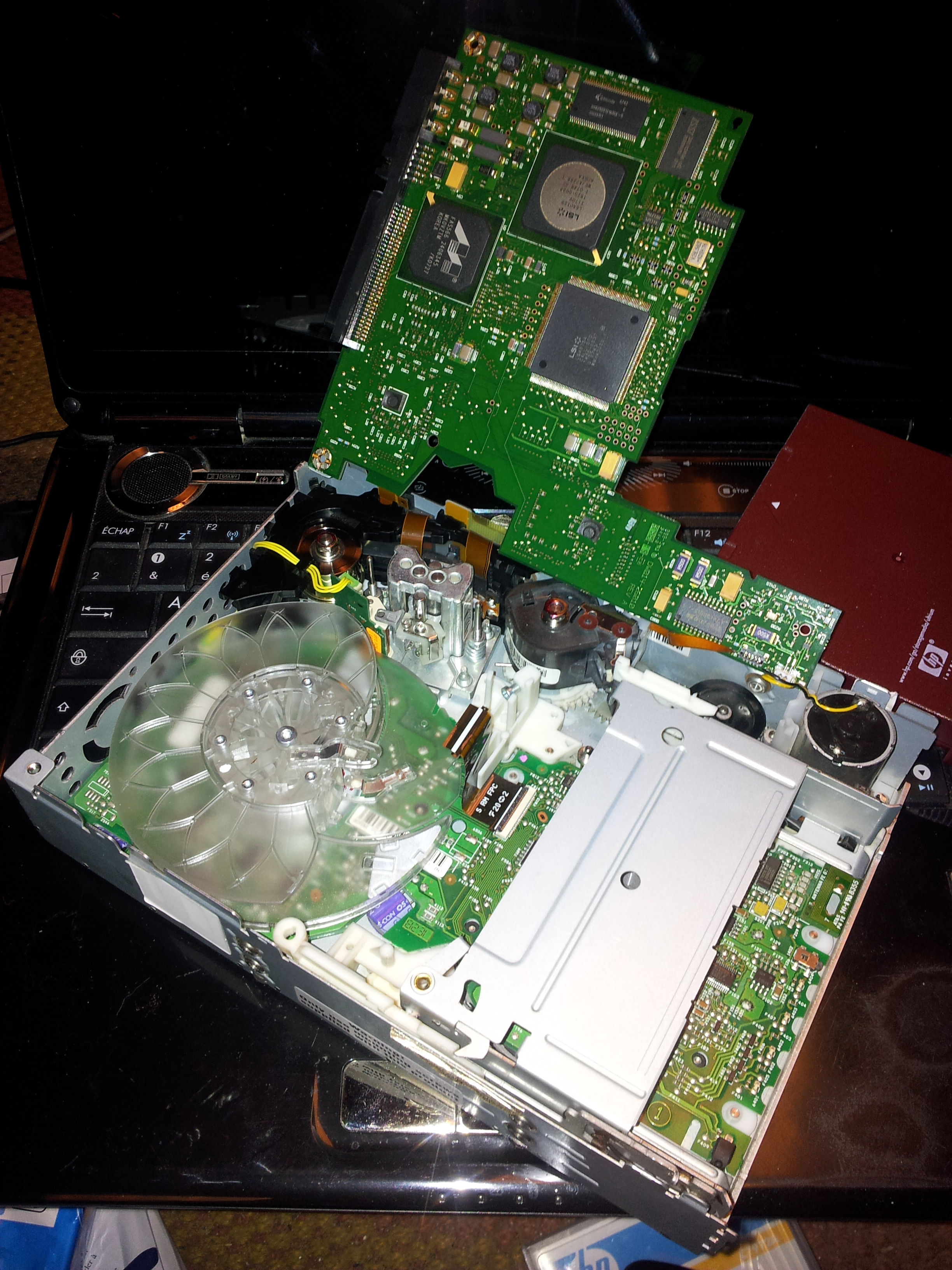 Inside a LTO (Linear Tape Open) tape drive. This actually is a LTO-2 drive 5"1/4 (HP StorageWorks Ultrium 448).